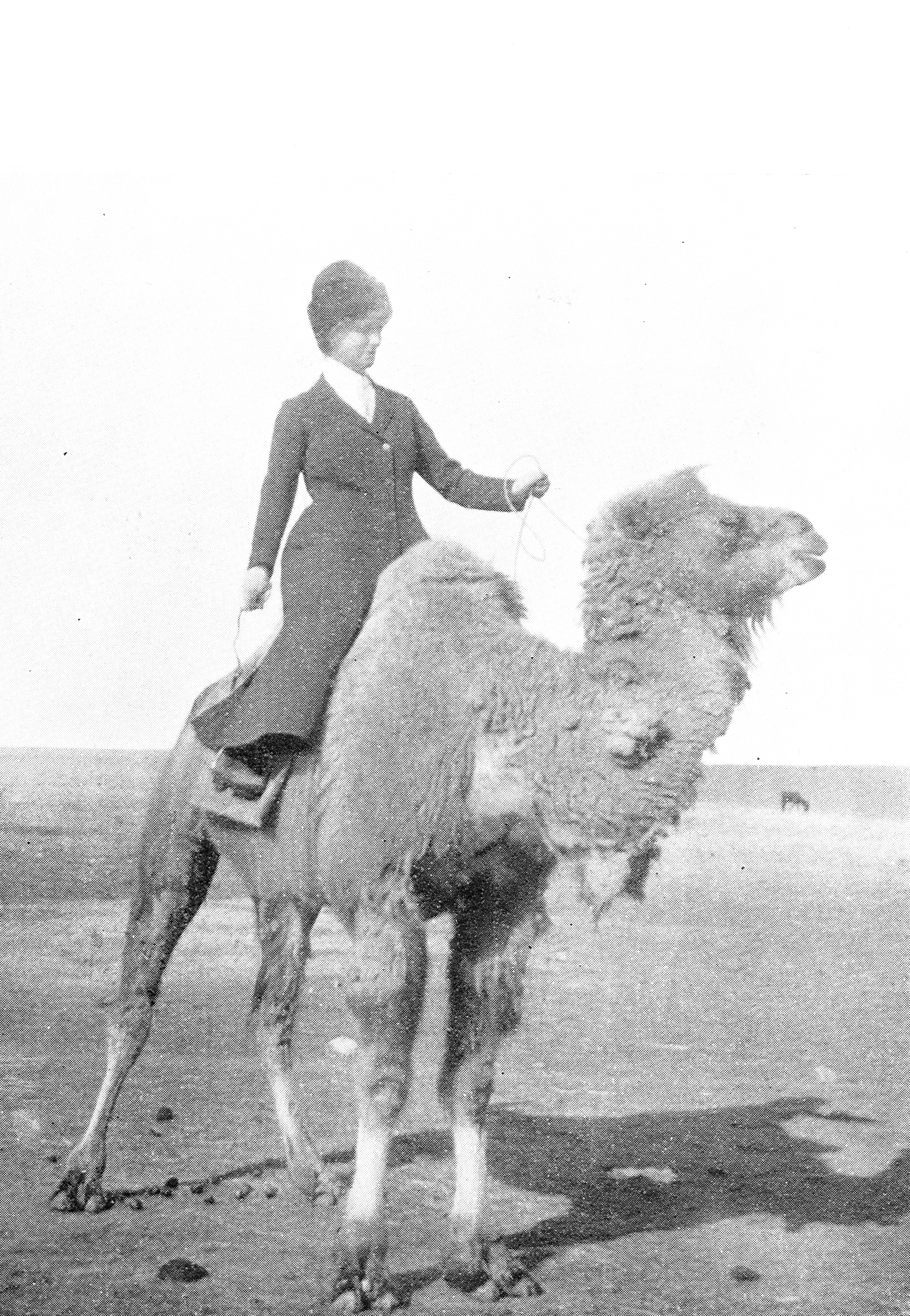 Beatrix Bulstrode (Mrs. Edward Manico Gull) on a camel in Mongolia